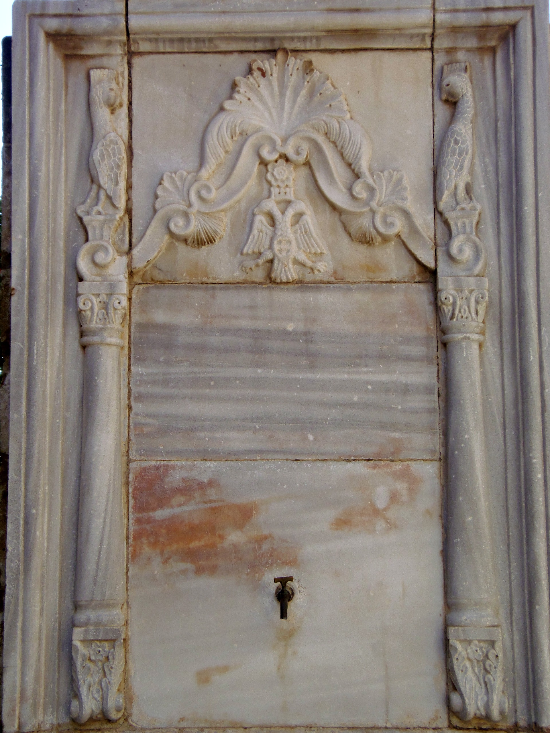 Water fountain in the courtyard of the Hadzhigeorgakis Kornesios'house (now Ethnographic Museum) in Nicosia, Cyprus.